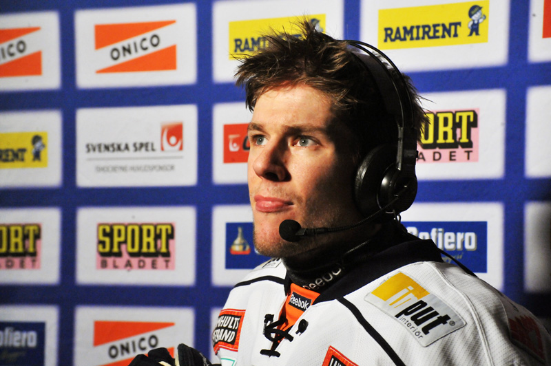 Swedish ice hockey forward Robert Rosén of Växjö Lakers